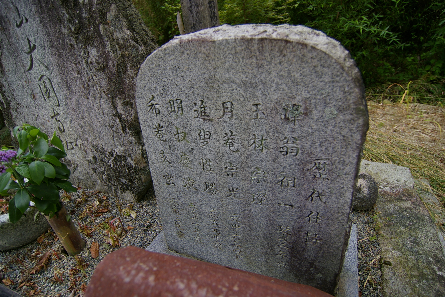 Daienji (Iwamura, Ena City, Gifu pref., Japan